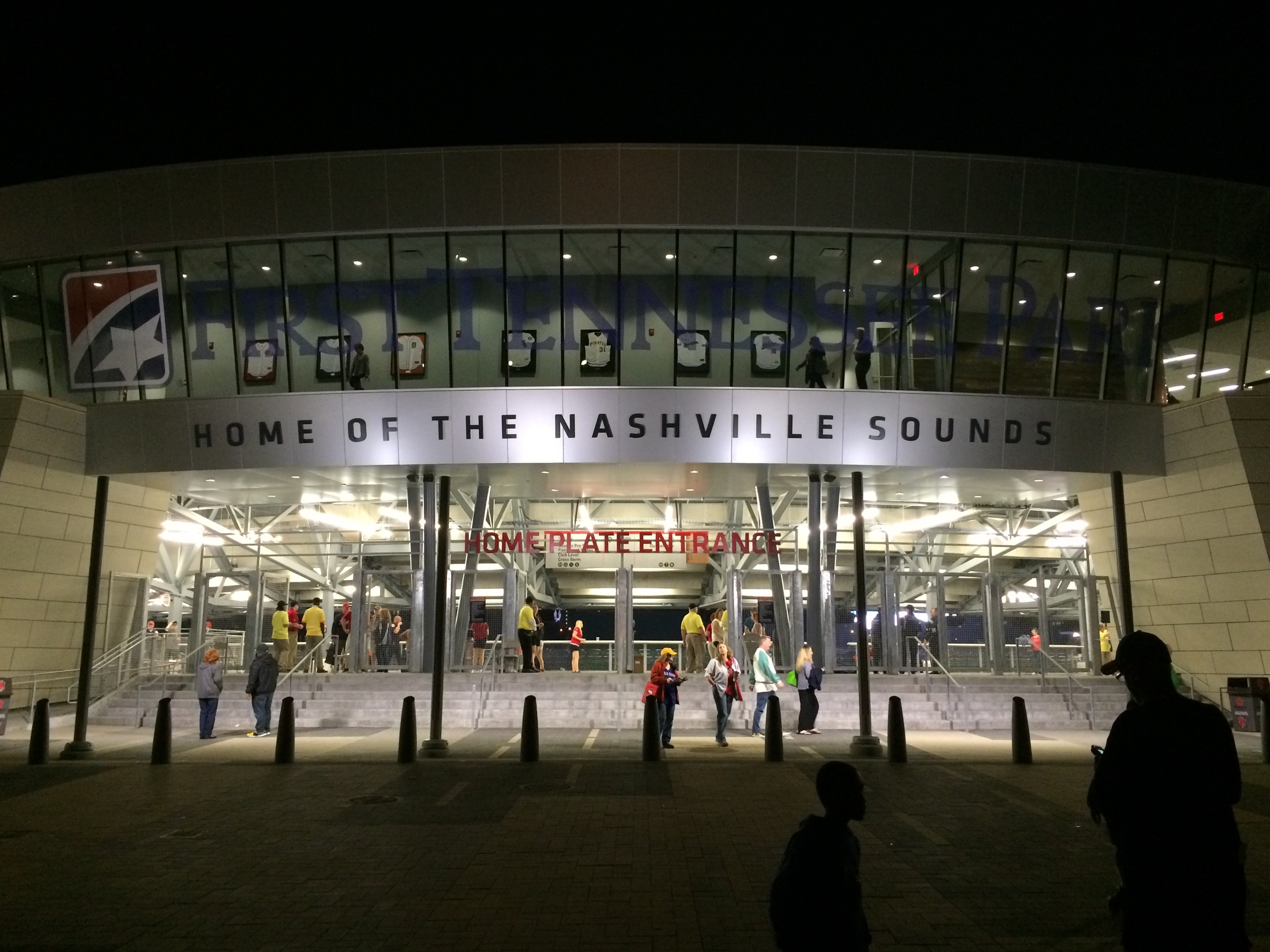 The home plate entrance at First Tennessee Park on April 17, 2015, the park's inaugural game